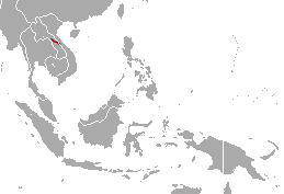 Long-eared Gymnure (Hylomys megalotis) range